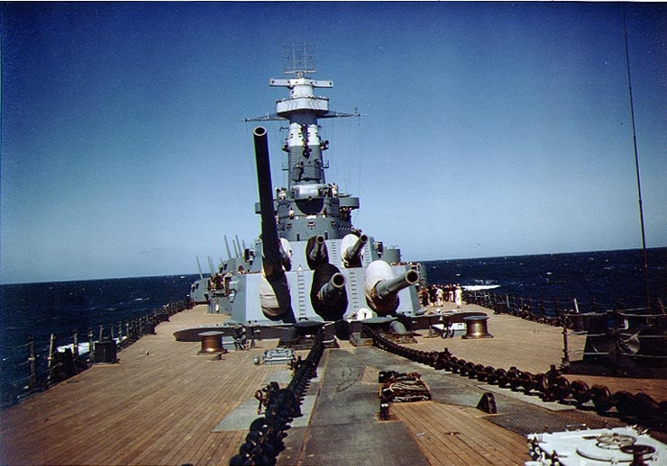 "View looking aft from the battleship's bow, showing her forward superstructure and 16"/45 guns. Photographed during her maiden voyage, circa May 1941. Note Measure 1 camouflage paint, CXAM-1 radar antenna, anchor chains and deck planking."